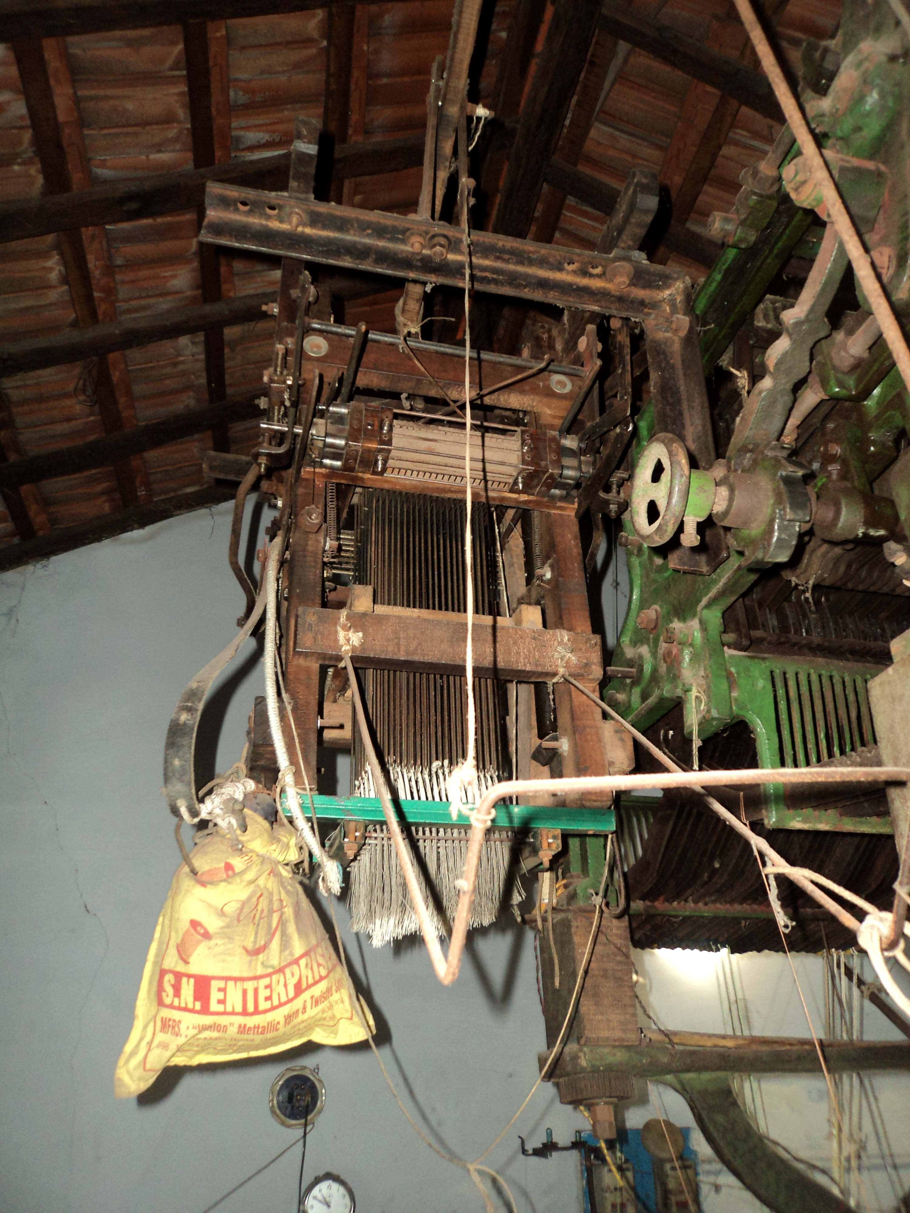 Jacquard weaving makes possible in almost any loom the programmed raising of each warp thread independently of the others. This brings much greater versatility to the weaving process, and offers the highest level of warp yarn control. This mechanism is probably one of the most important weaving inventions